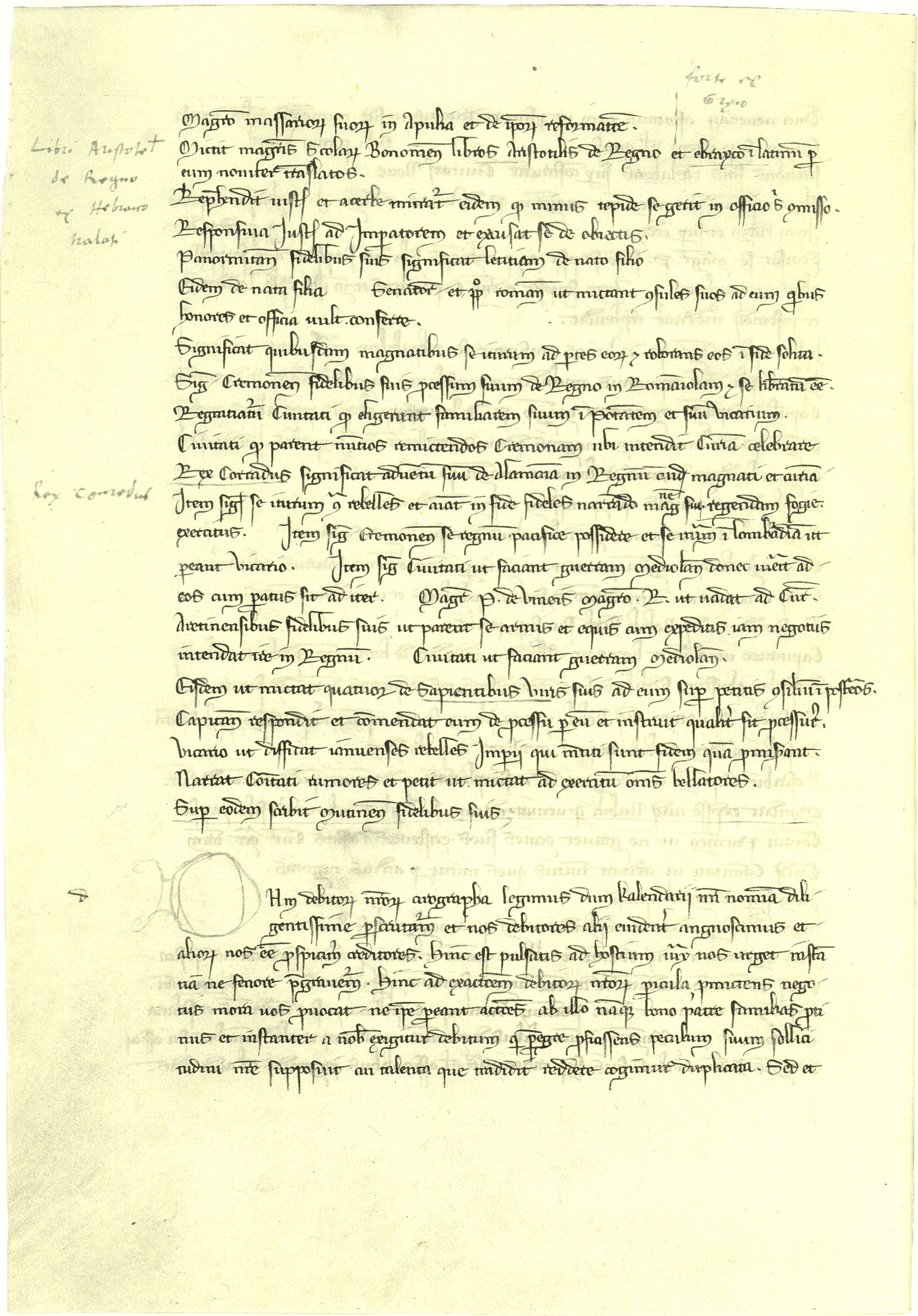 Petrus de Vinea, letters, in ms. Biblioteca Apostolica Vaticana, Vaticanus Palatinus lat. 972, fol. 56v.